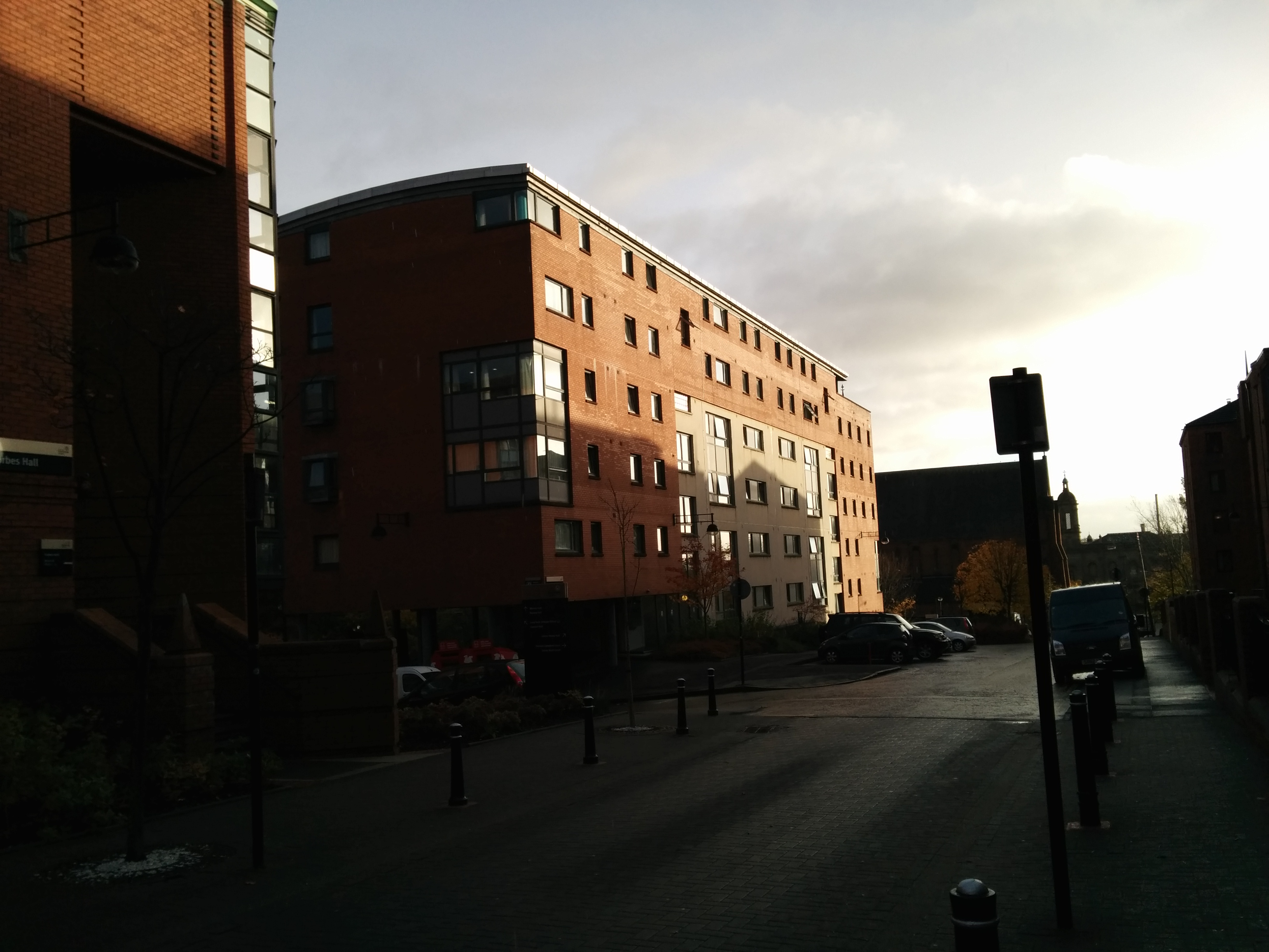 Picture of James Gould Hall (Strathclyde)